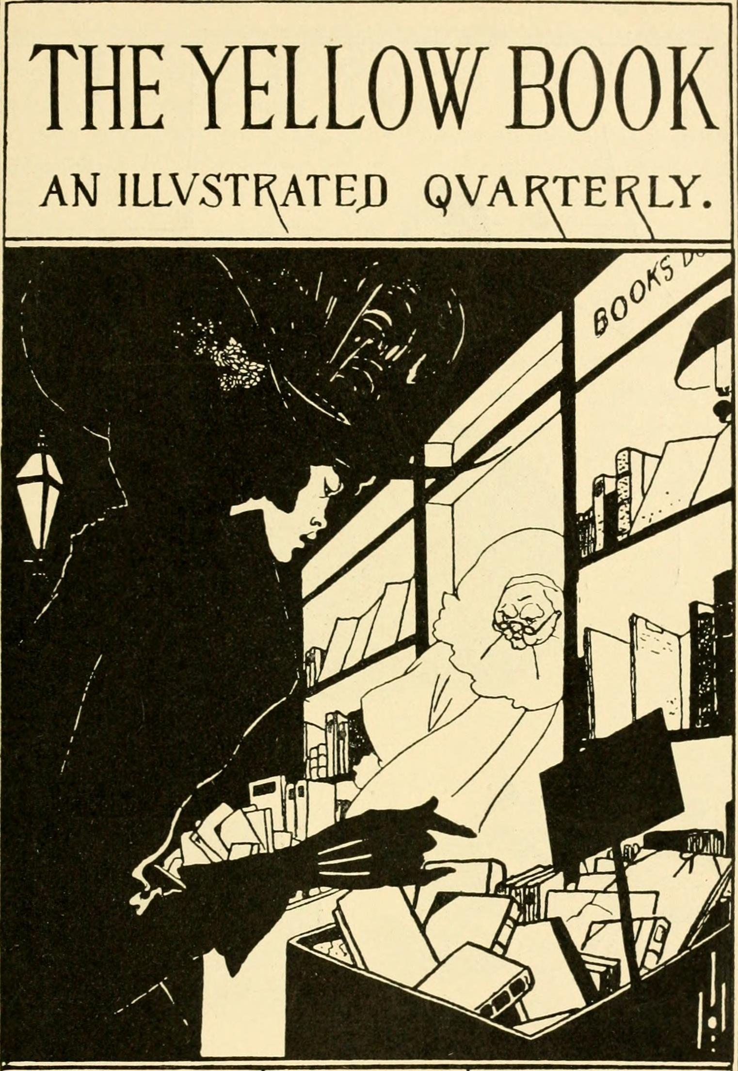 Aubrey Beardsley - The Yellow Book, An Illustrated Quarterly, April 15, 1894 Title: Skämtbilden och dess historia i konsten Year: 1910 (1910s) Authors: Laurin, Carl Gustaf Johannes, 1868-1940 Subjects: Caricature -- History Caricature and cartoons, European -- History Wit and humor, Pictorial -- History Publisher: Stockholm : P. A. Norstedt Text Appearing Before Image: tt Mefistofeles skullevid deras åsyn ångra sitt tänkespråk: »Je mehr Fleisch je mehrSunde.» I sitt novellfragment Under the Hill beskrifver Beardsleysin längtan efter den ytterst förfinade njutningen, konstfullt hop-bryggd af lek och smärta, af lättsinniga kyssar, djupa orgel-toner och hysteriska skratt. Där har han i ord sagt hvad hanvill i sina bilder. Det hela är romantik och med en bismak afromantisk ironi på botten. — Scenens overklighet lockar honom,mest dock den hvite pierrot, hvars stiliserade gester och stereo-typa repliker ibland afbrytas af en äkta rörelse, af ett tonfallskälfvande af ängest eller begär, som kan öfverrumpla den mestskeptiske åskådare. Baudelaires titel »Les paradis artificiels» kan utan omskrif-ningar tillämpas på Beardsleys teckningar. Man gör upp sina idéer om hur ett paradis rätteligen börvara på mycket olika sätt. Nordbon tänkte sig Valhall medrika tillfällen till slagsmål och stekt skinka i obegränsade mängder. S30 Text Appearing After Image: Pr\\CEL PIVE SHILLINGS ELhIN /»\ATHEW/3AND JOH^y LANE.TXE BODLEV HE AOVIGO ST. LONDON APf^lL IS»-nDCCCXCIV. 410. Omslaget på prospektet till tipskkiften The Vellow Book. Teckning af Aubrey Beardsley. 531 ENGLAND.